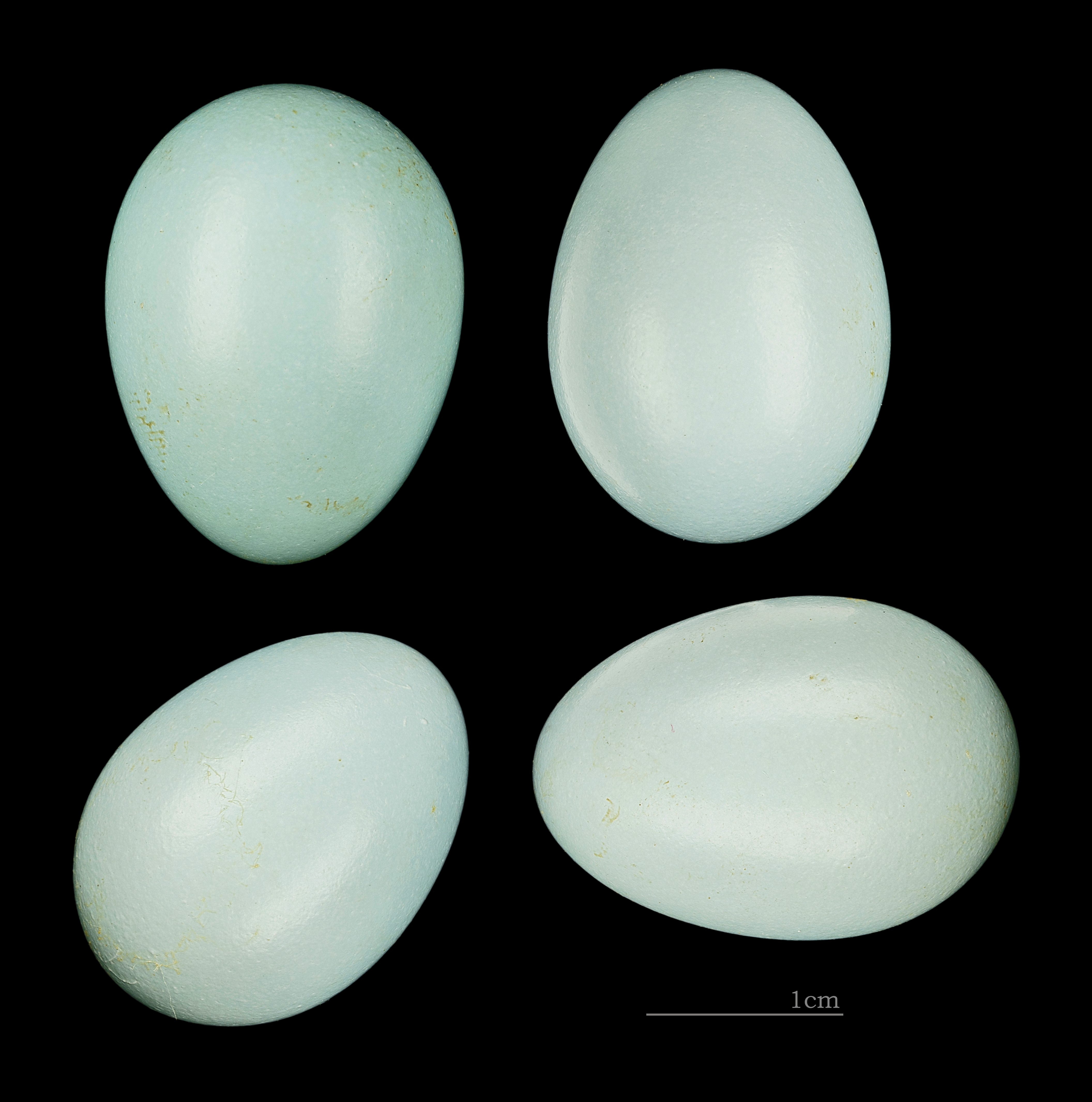 Egg of Fulvous Babbler. Collection of Jacques Perrin de Brichambaut.